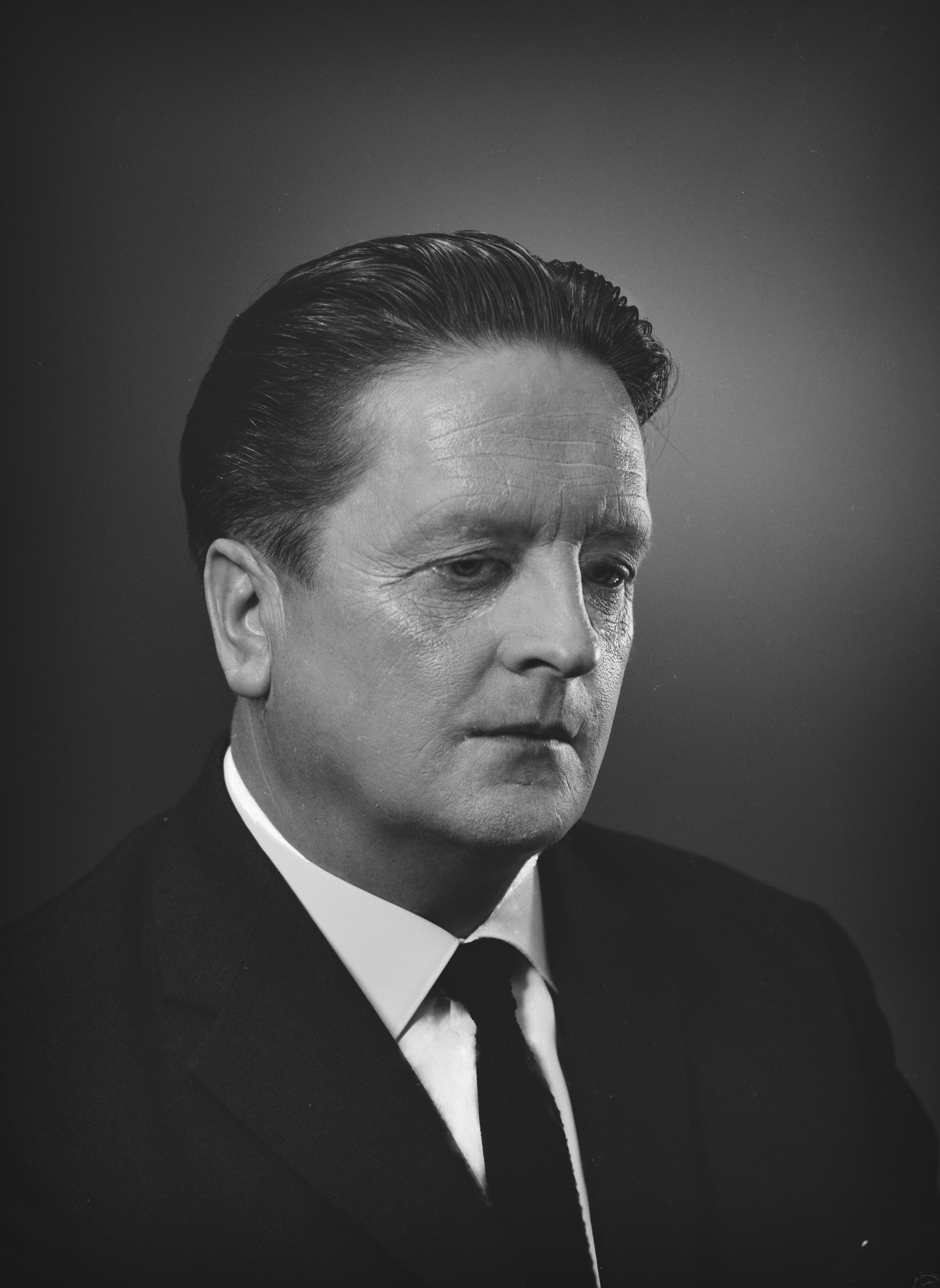 Photograph of the Finnish pianist and organist Tauno Äikää (1917–2008).